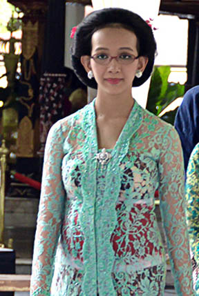 HRH Princess Bendoro of Yogyakarta